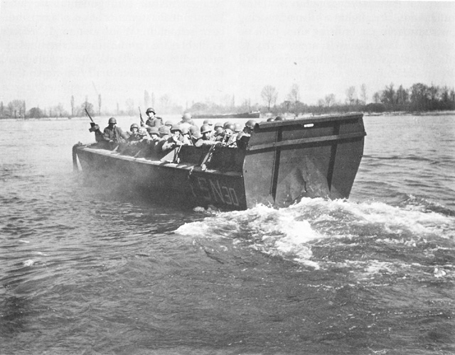 U.S. troops crossing the Rhine near Nierstein on 23 March 1945 in a LCVP.